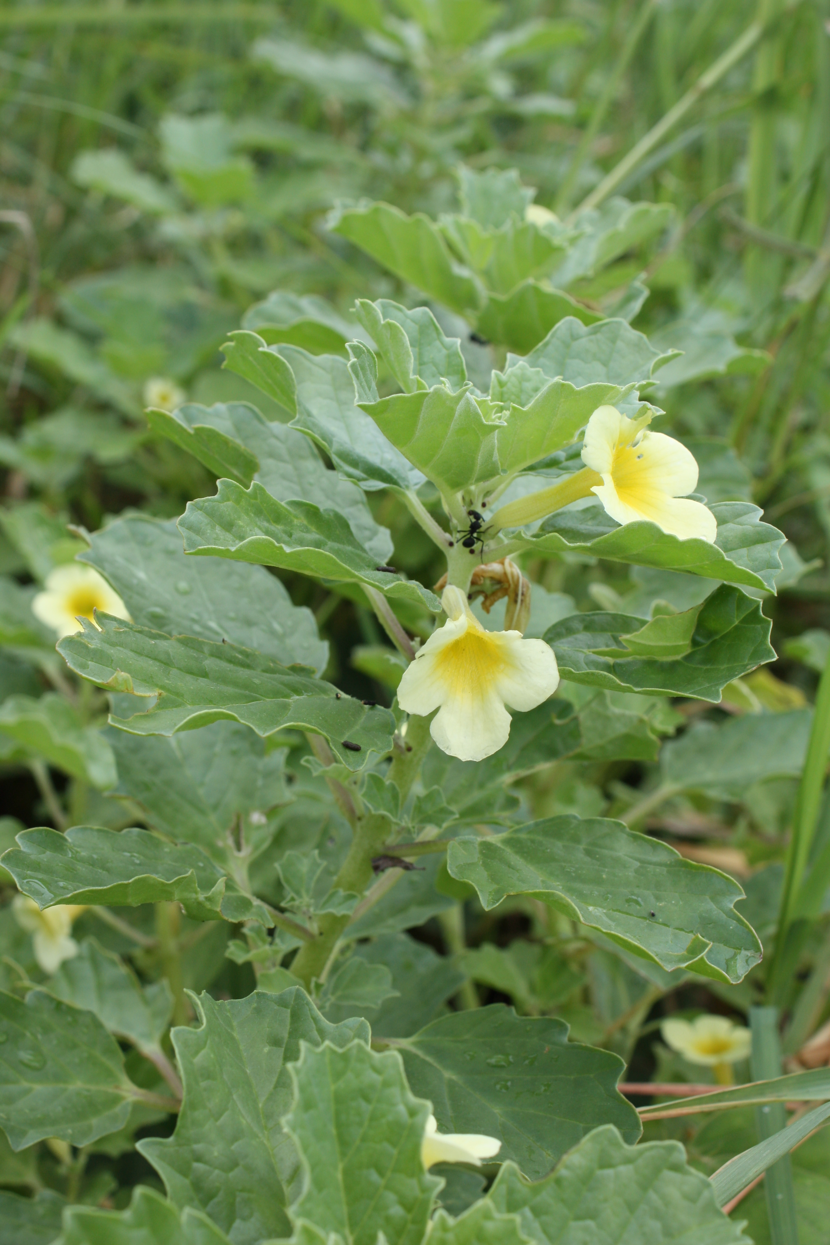 Pedalium murex, at the coast near Cotonou, Benin